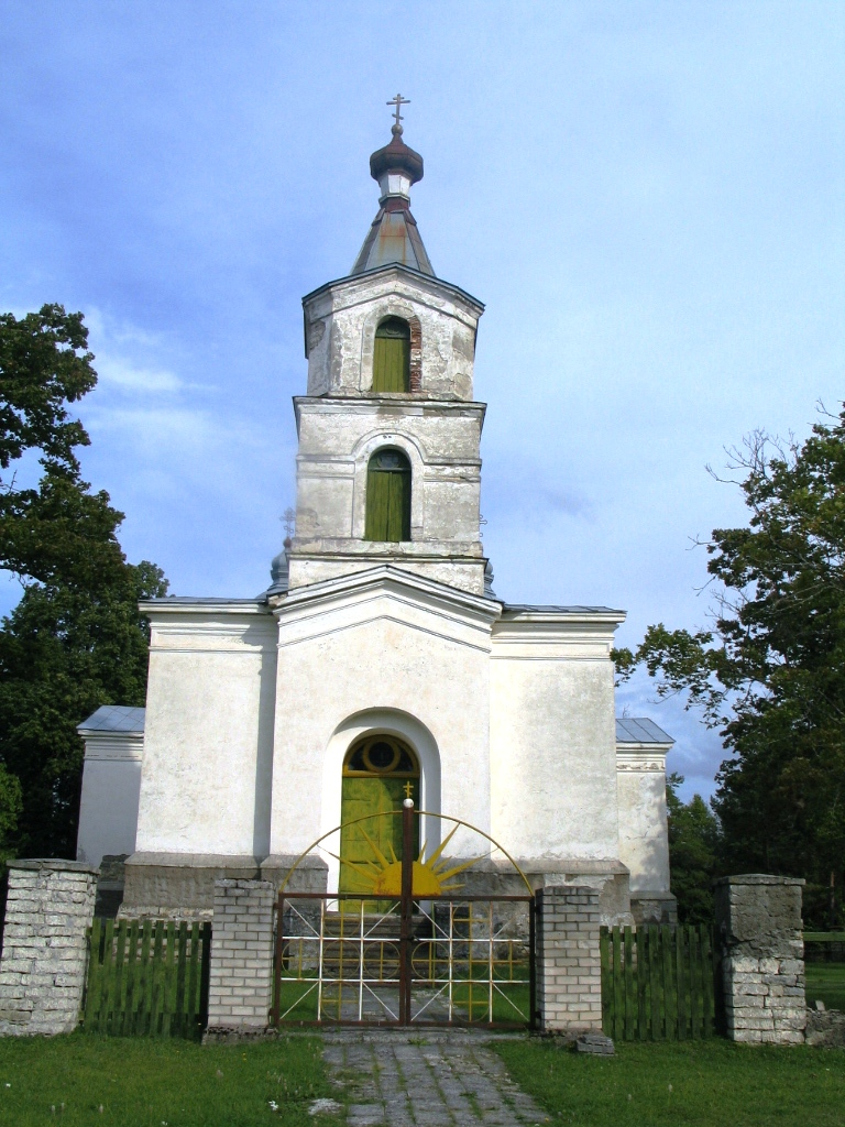 Ööriku church in Orissaare parish, Saaremaa